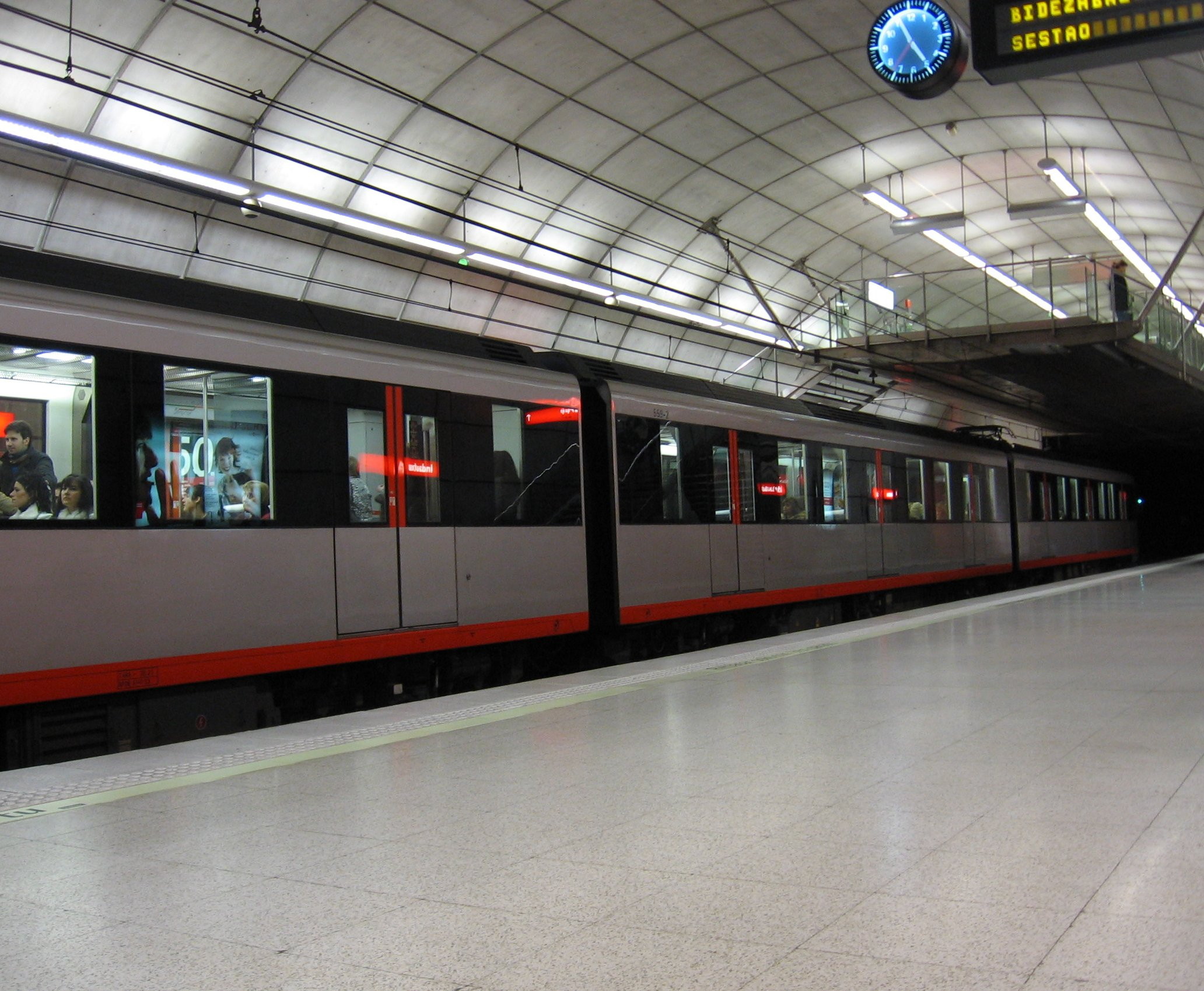 Station Indautxu of the Bilbao metro, with train